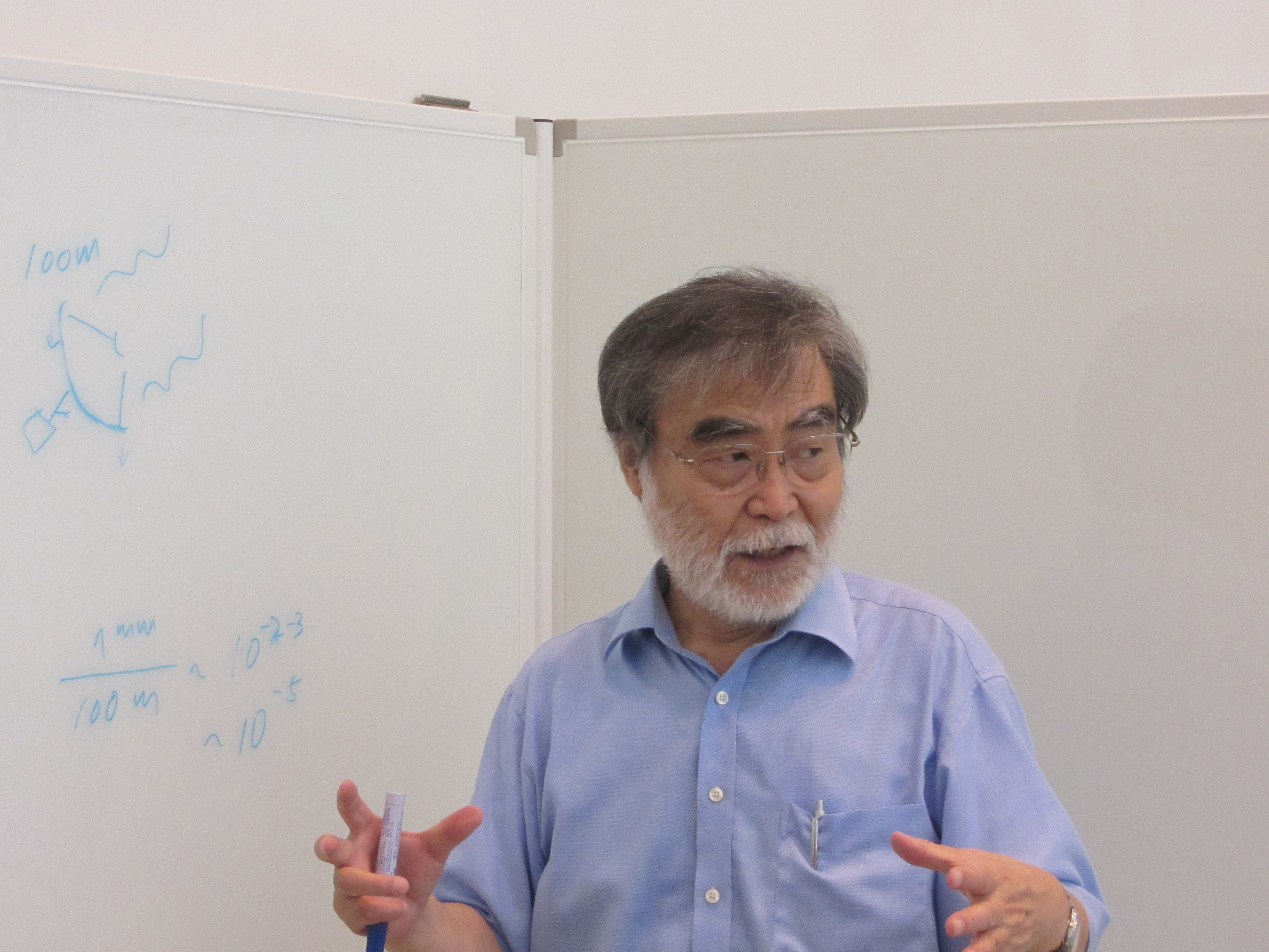 Japanese Astronomer Inoue Makoto